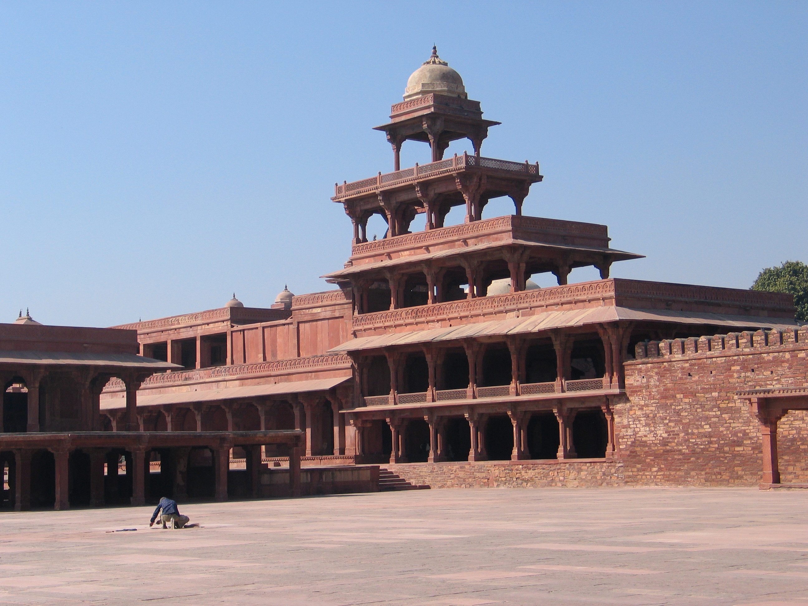 Panch Mahal, Fatehpur Sikri, Uttar Pradesh, India